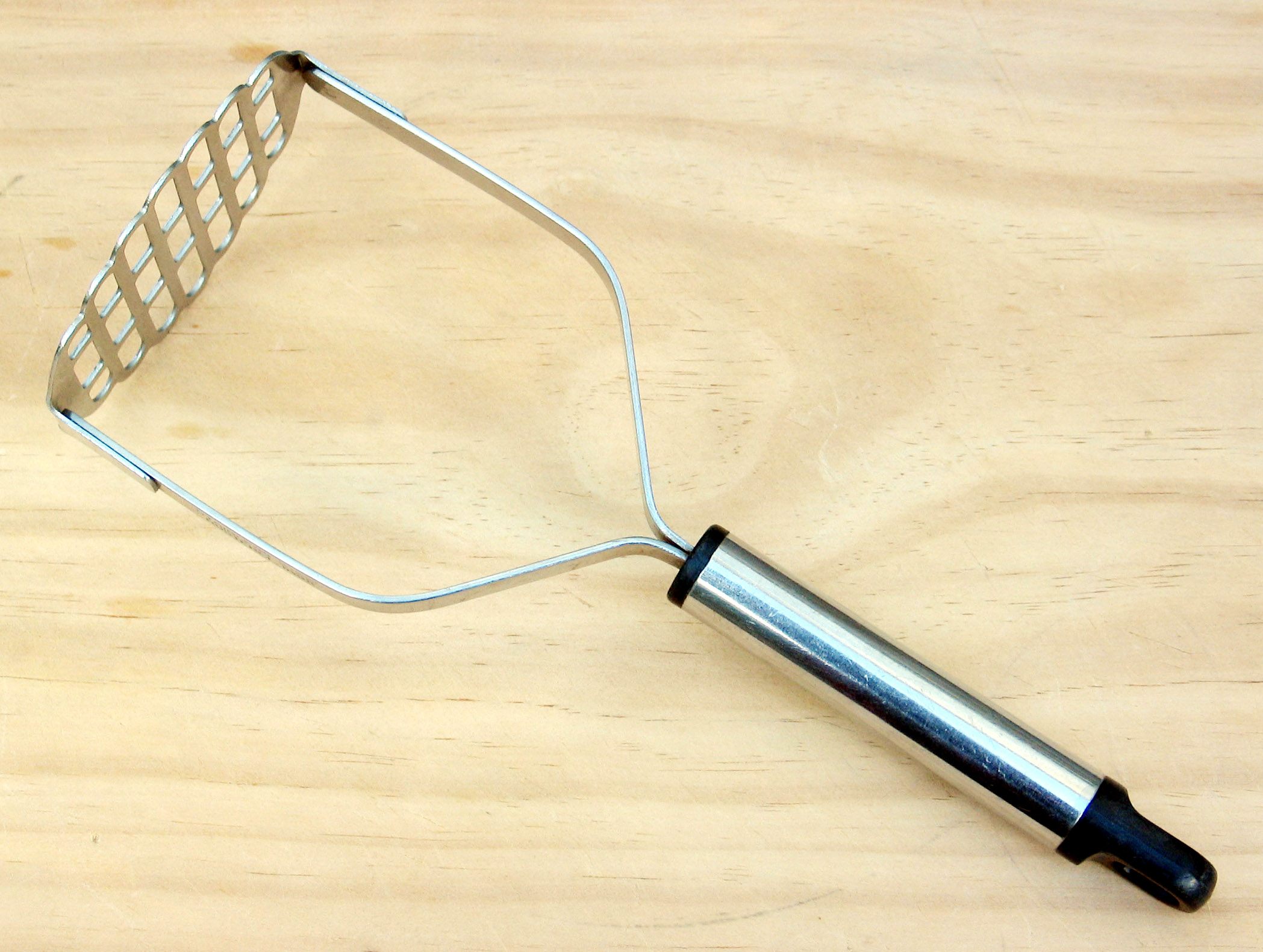 This is a potato masher.